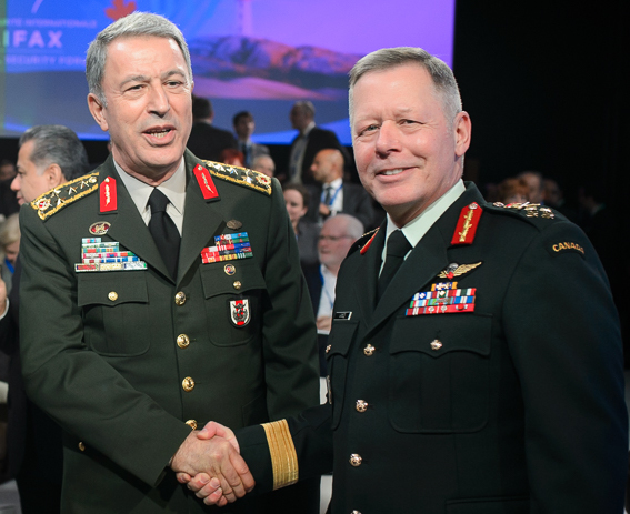 General Jonathan Vance, Chief of the Defence Staff of Canada (far right), greets Turkish representatives (L-R) Selçuk Ünal, Ambassador of Turkey to Canada, Ömer Çelik, Minister of European Union Affairs of Turkey, and Hulusi Akar, Chief of the Defense Staff of the Turkish Armed Forces.